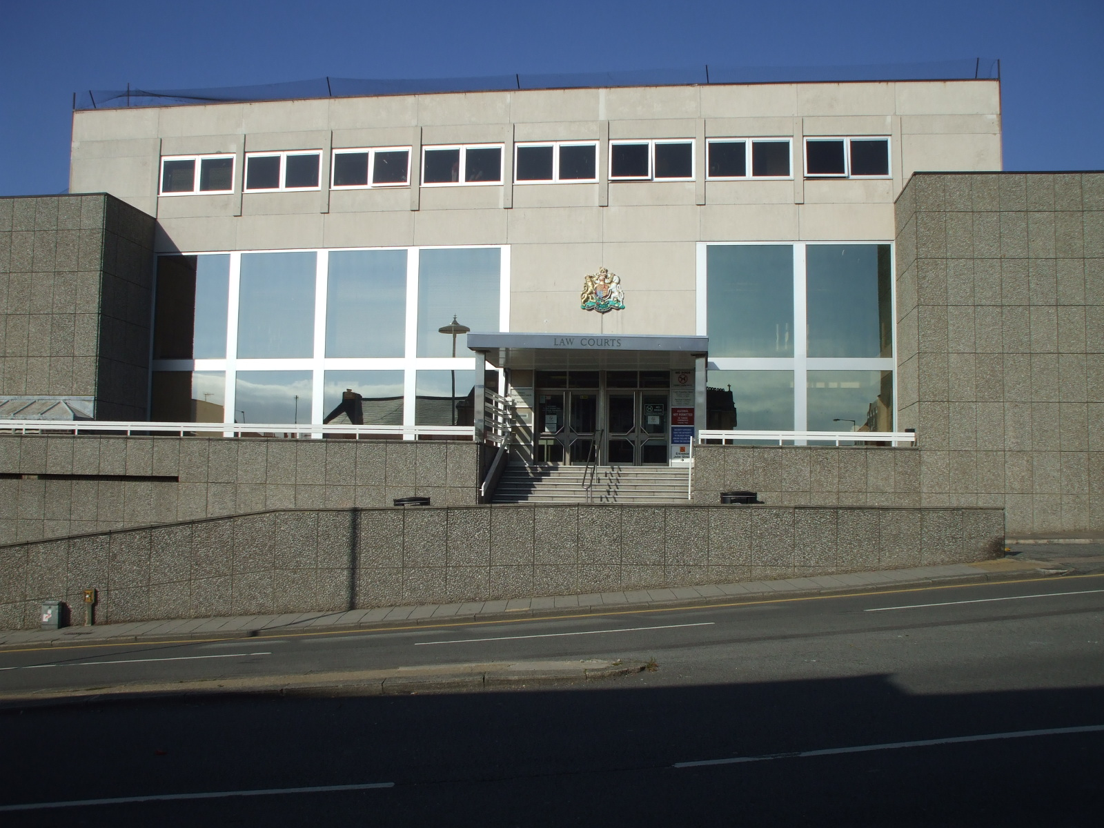 Law Courts, Eastern Road, Brighton(GB)